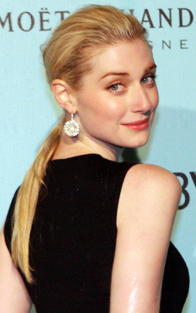 Elizabeth Debicki at the The Great Gatsby Premiere Sydney Australia 2013.